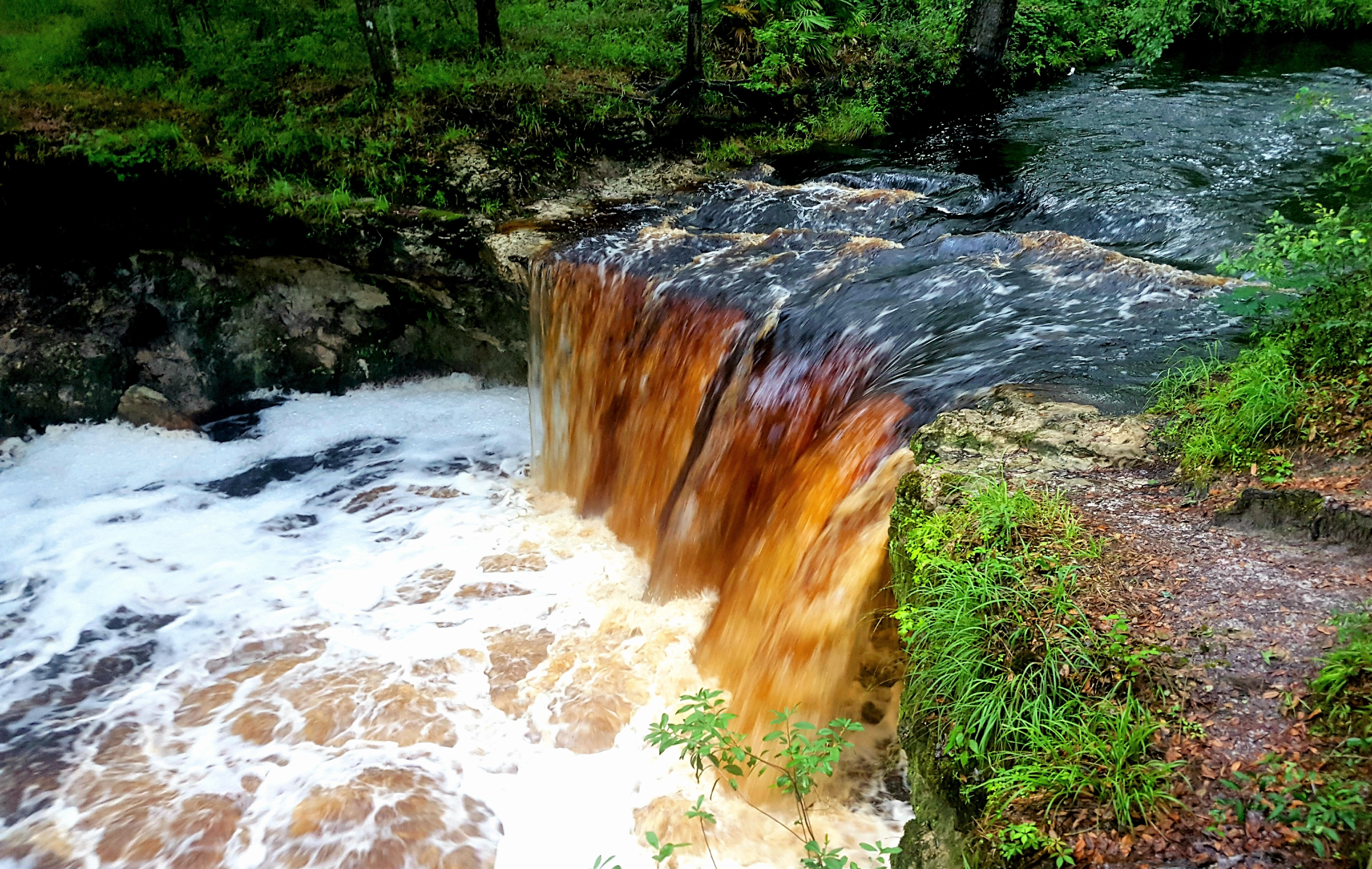 Image of Falling Creek Falls taken in the late afternoon in late June 2017 by user PansophicBias